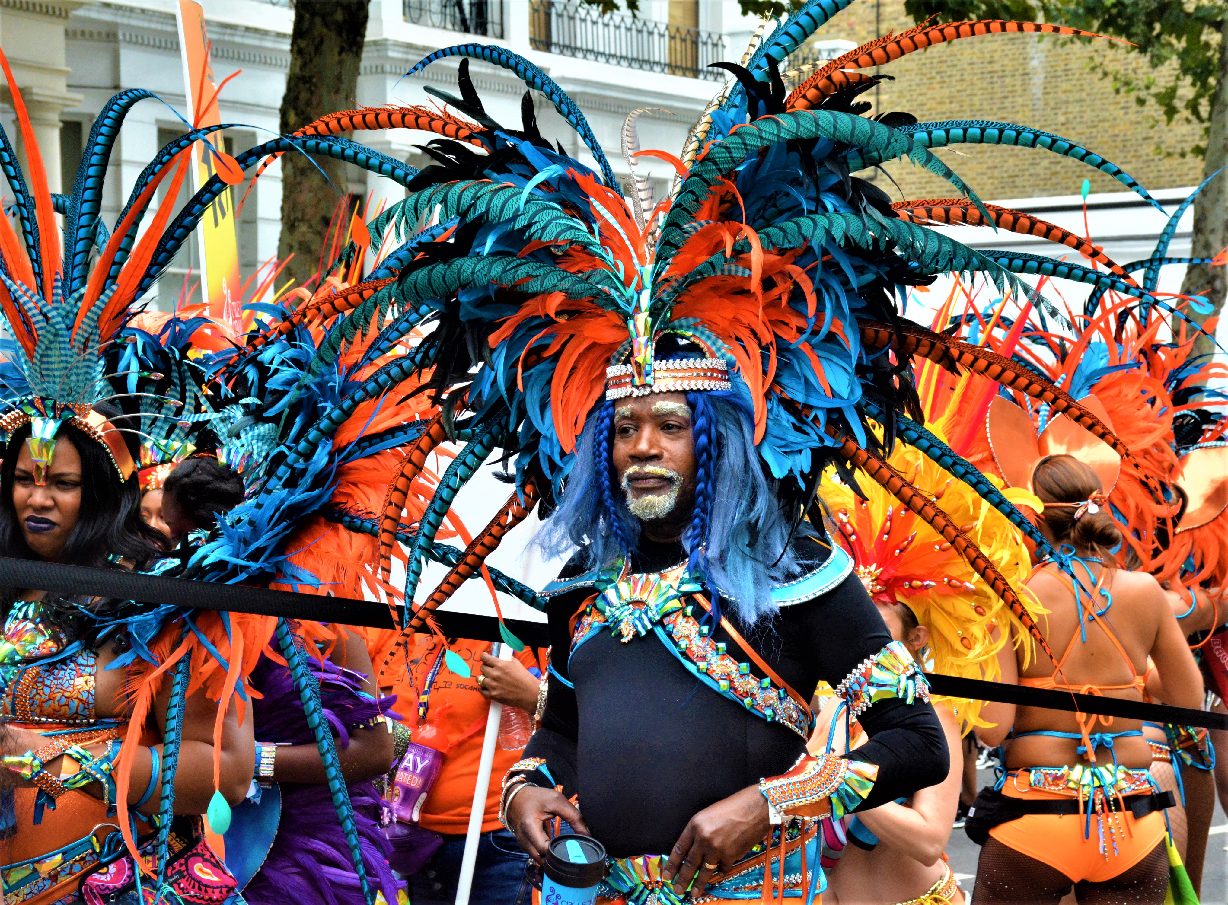 Notting Hill Carnival 2018 (London)